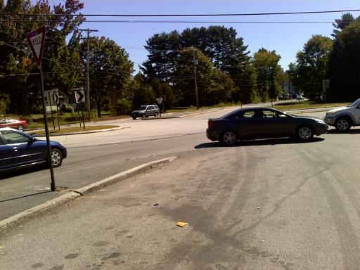 Photo of Little Falls in Gorham, ME